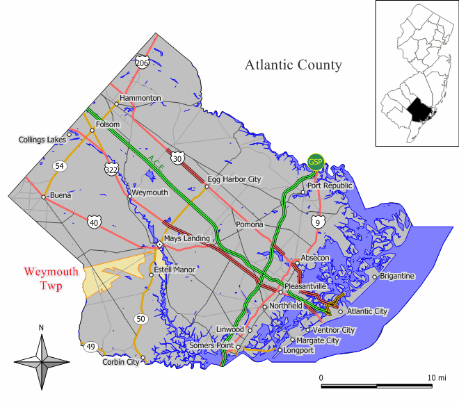 Source: Jim Irwin Original work by Jim Irwin, December 2005.